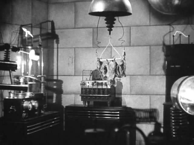 Still from "The Devil Bat" (1940), which is now in the public domain.